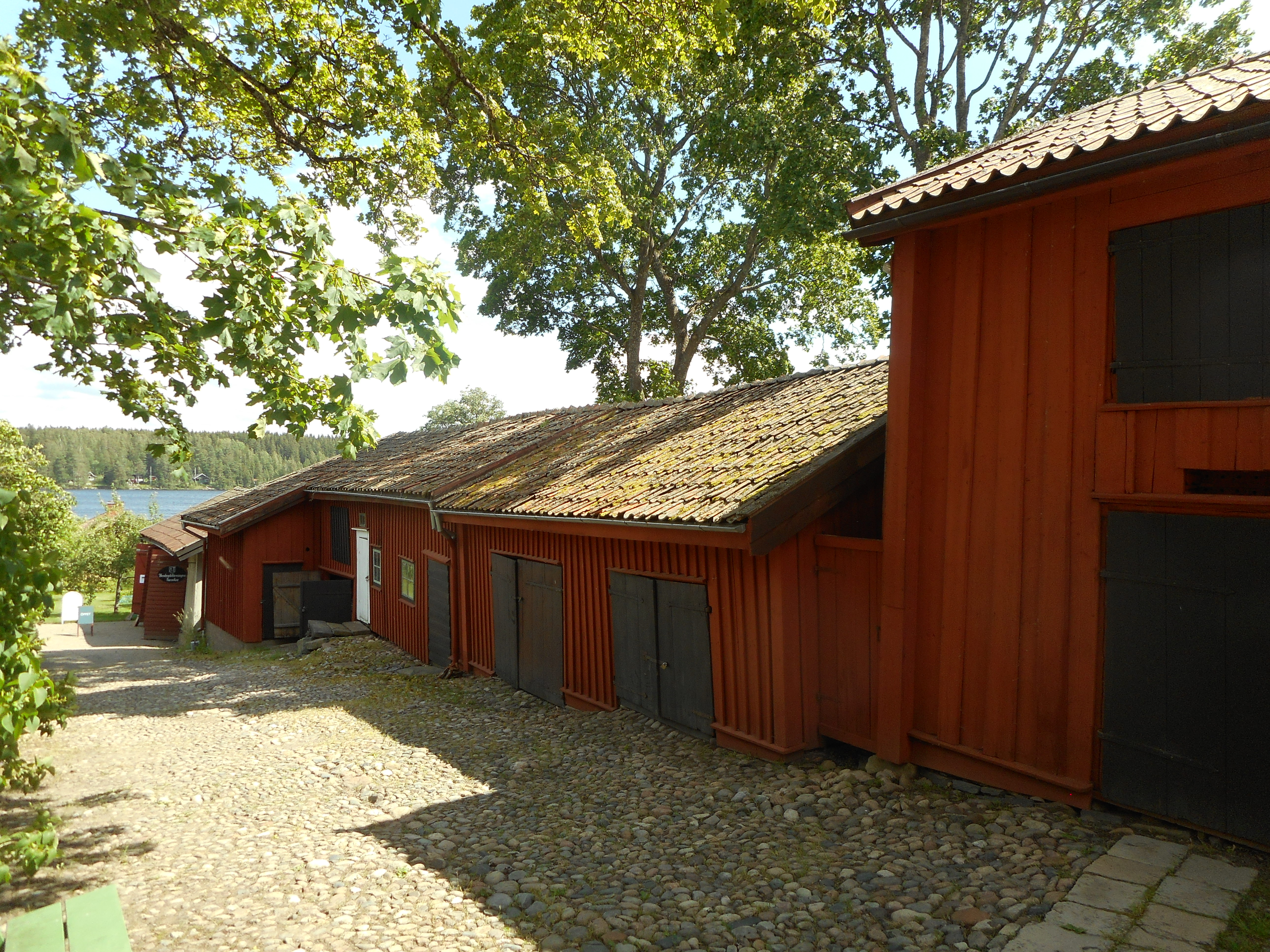 Buildings of the "Göthlinska gården" estate at Kungsgatan/Borgmästargatan in Nora, Nora Municipality